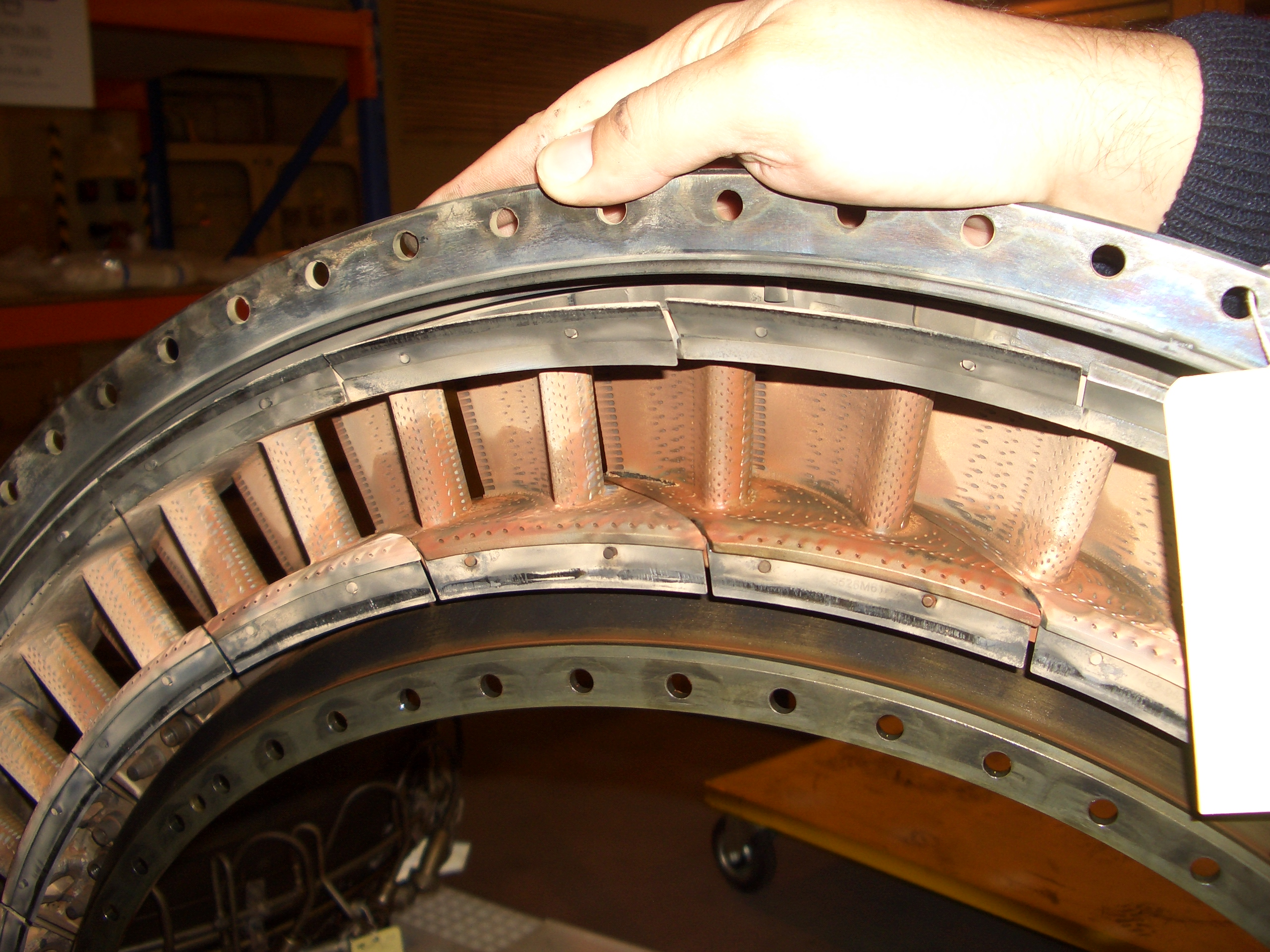 CFM56-3 high pressure turbine (HPT) stator vane.